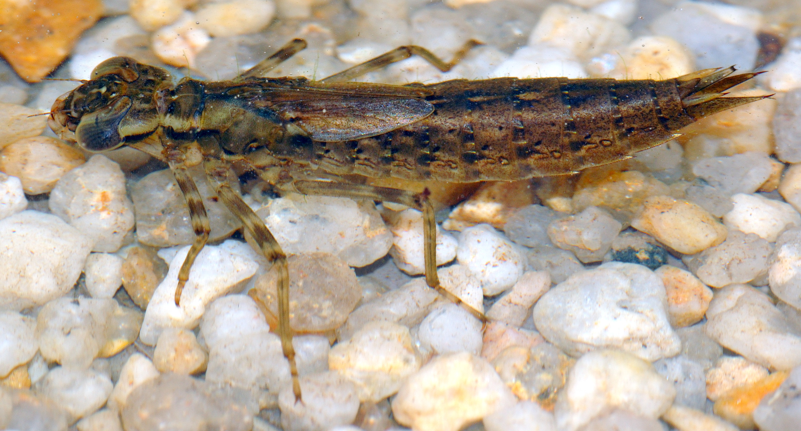 This image shows a larva of a dragonfly of the species Aeshna cyanea.